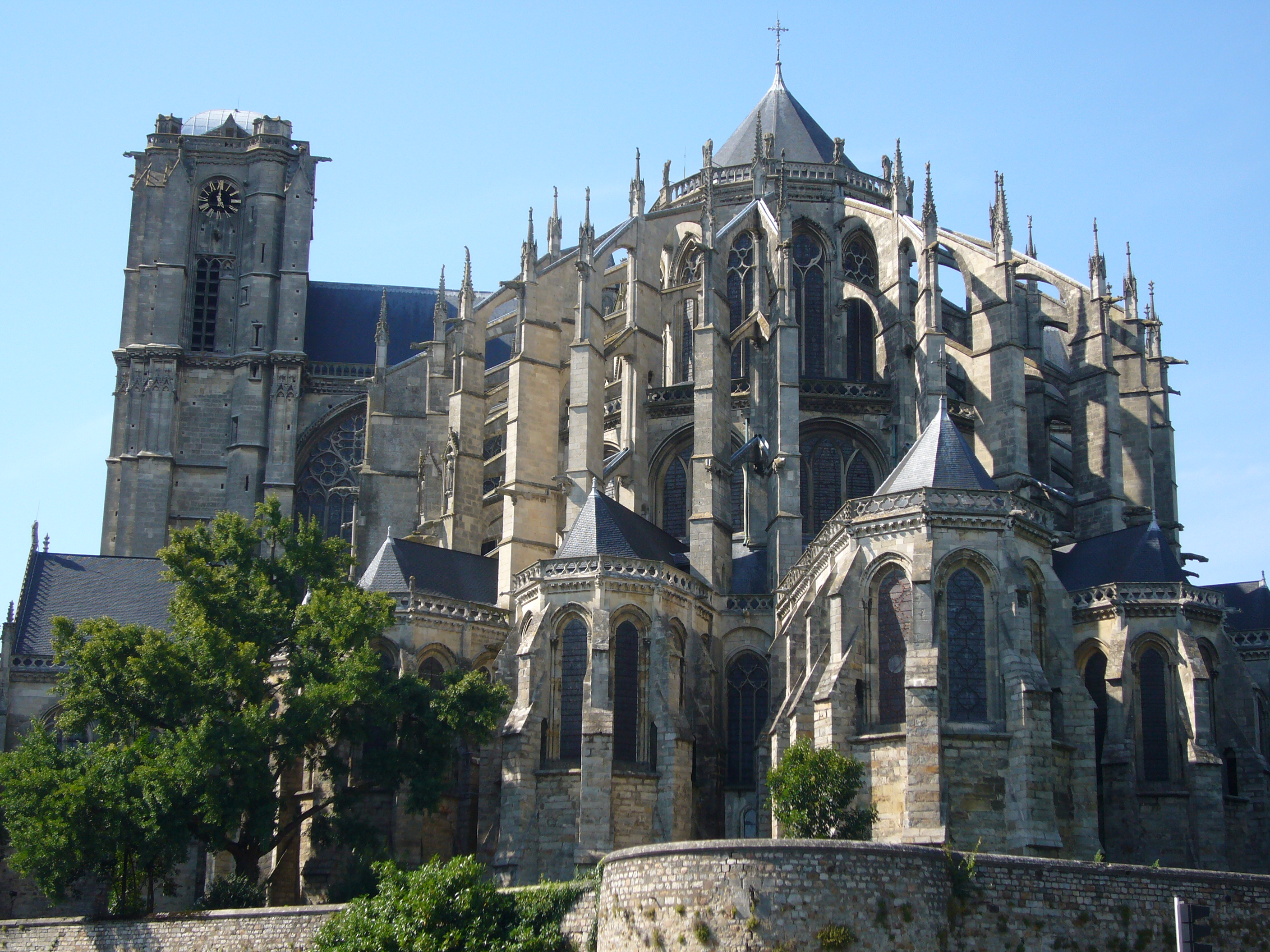 Le Mans cathedral